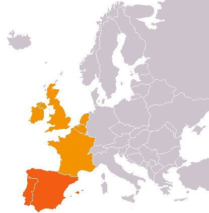 Western Europe according to CIA World Factbook, including Southwestern Europe distinction